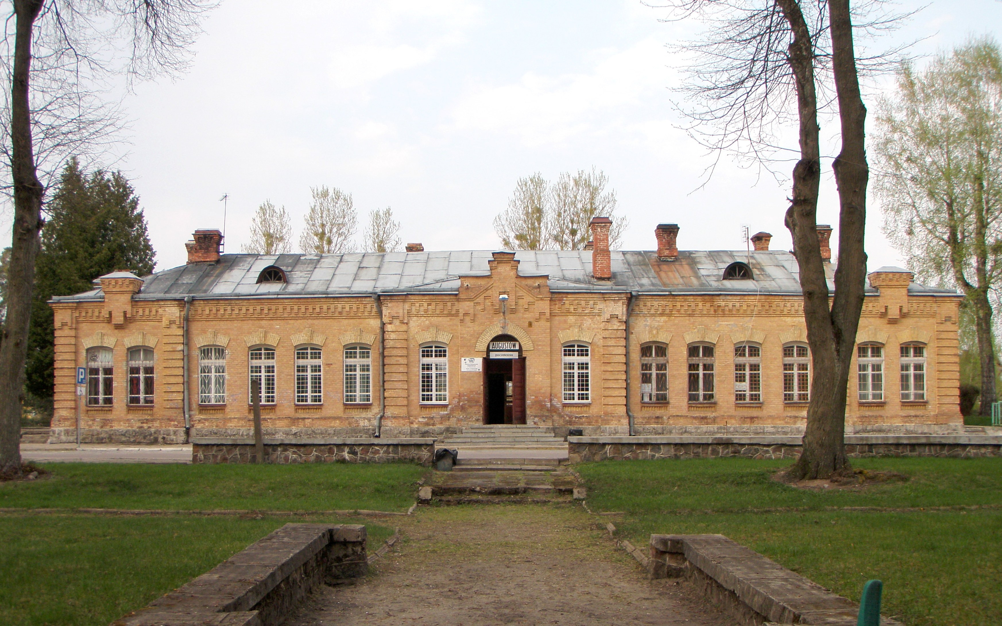 Station building in Augustów, Poland